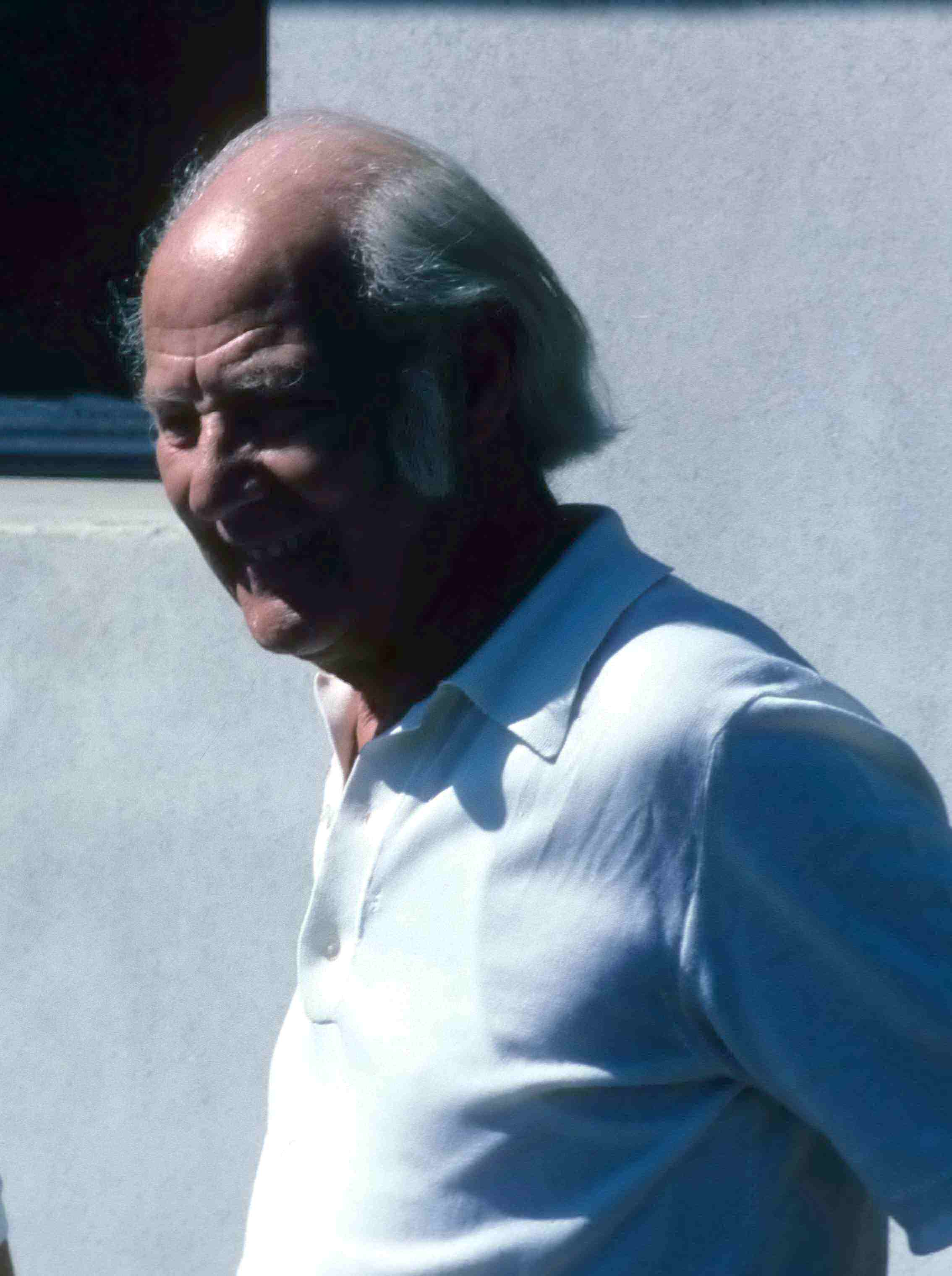 Francis Bott in front of his atelier in Breganzona